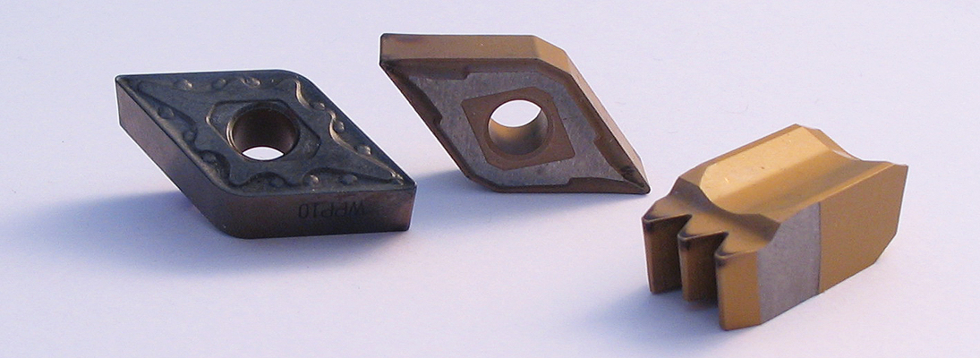 Several Cutting inserts